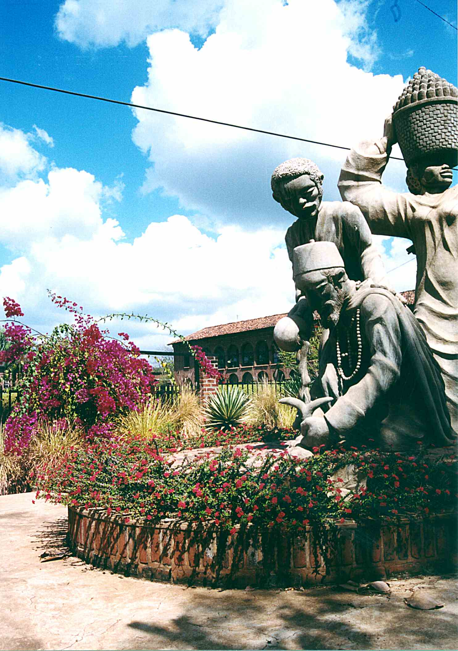 The Mission of Mua, Malawi